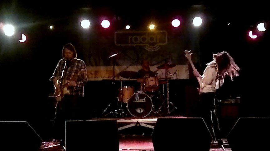 Alternative rock band Window Seats performing live at Queen's University Belfast Students' Union, 15 March 2012